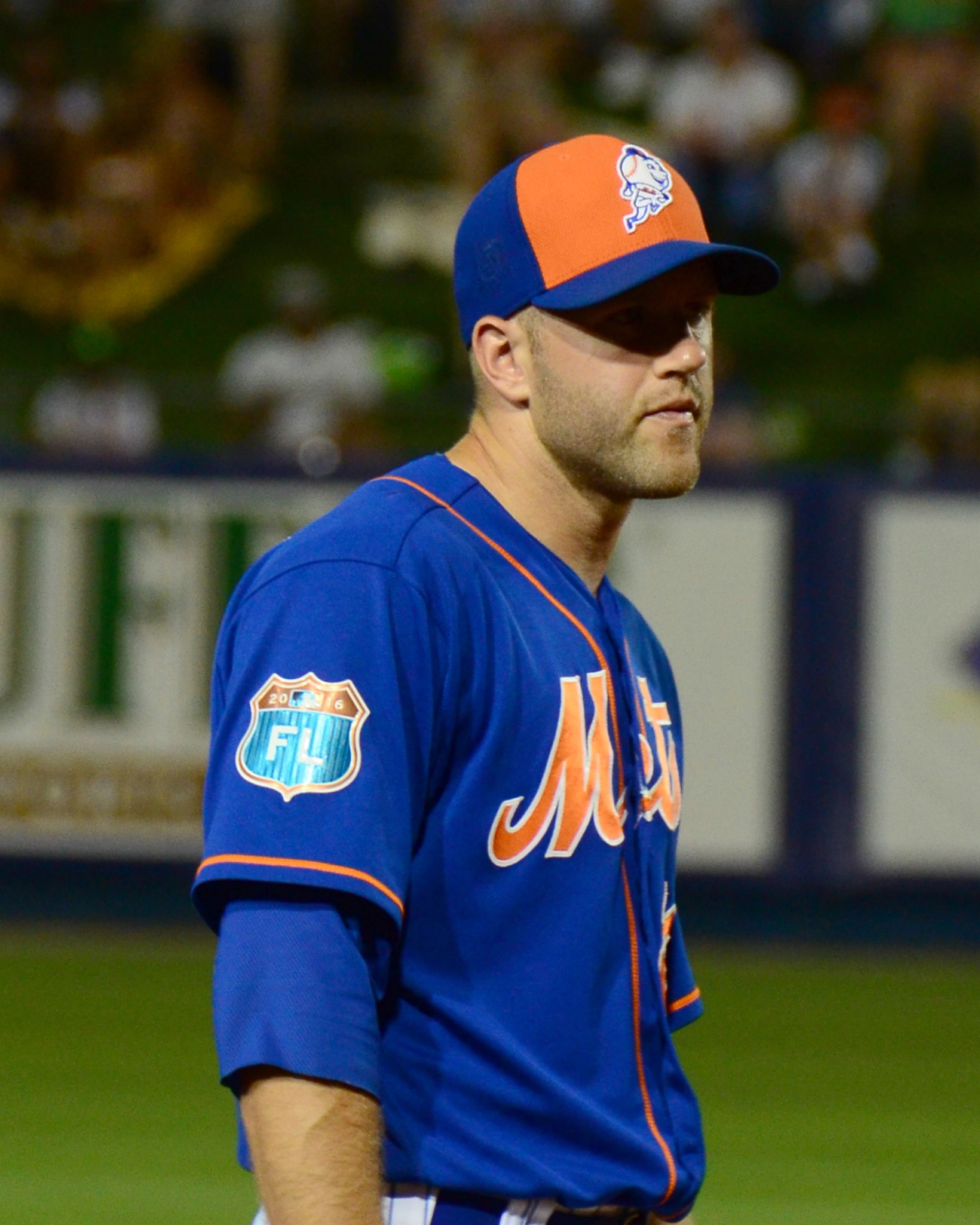 Eric Campbell in 2016